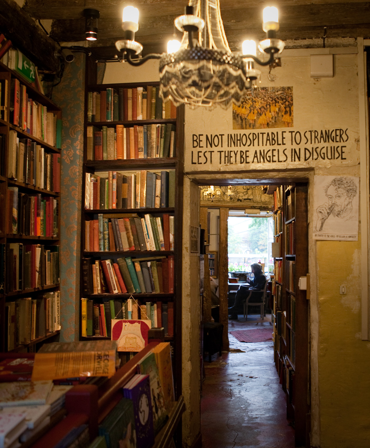 Shakespeare and Company, Paris, Upstairs Library